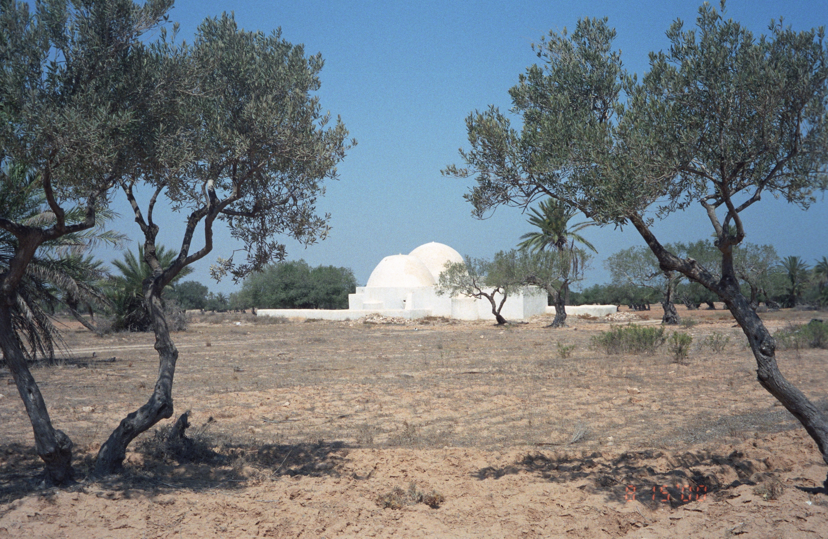 we spent a bit of time riding a moped around the island. this was a mosque by the side of the road